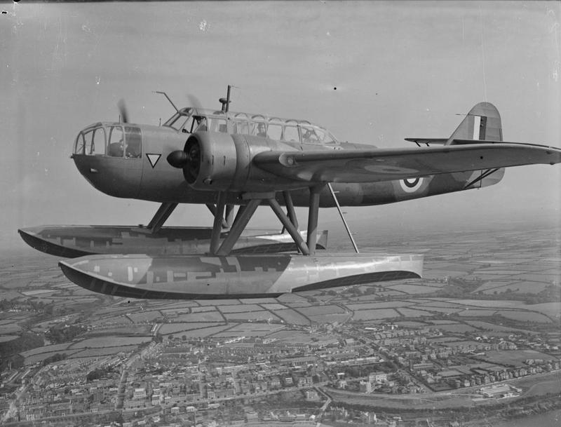 Foreign Aircraft in Royal Air Force Service, 1939-1945- Fokker T-viiiw. A Fokker T-VIIIW seaplane of No. 320 (Dutch) Squadron RAF setting off on convoy patrol after taking off from Pembroke Dock, Pembrokeshire.